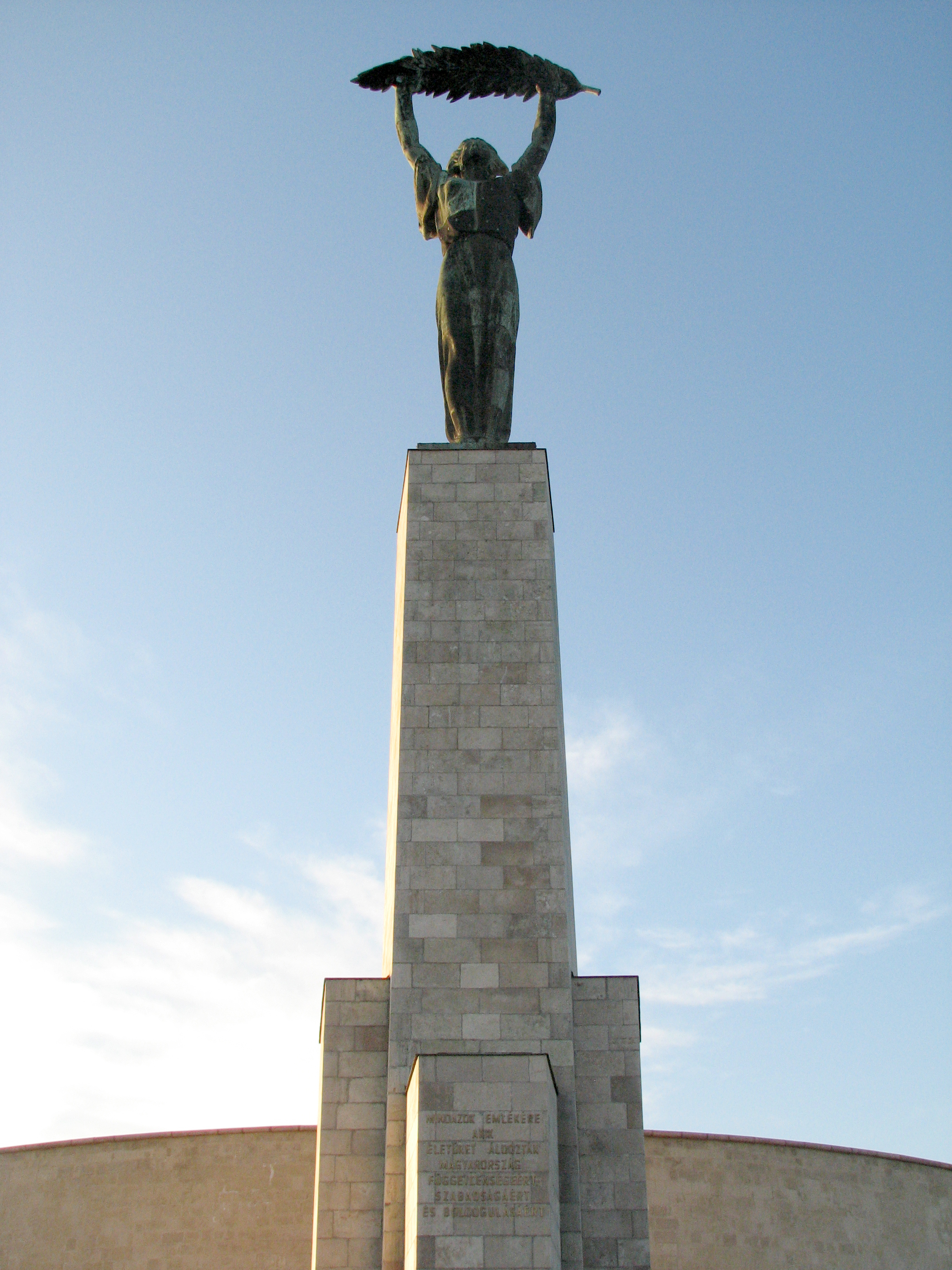 Statue of Liberty, Budapest, Hungary